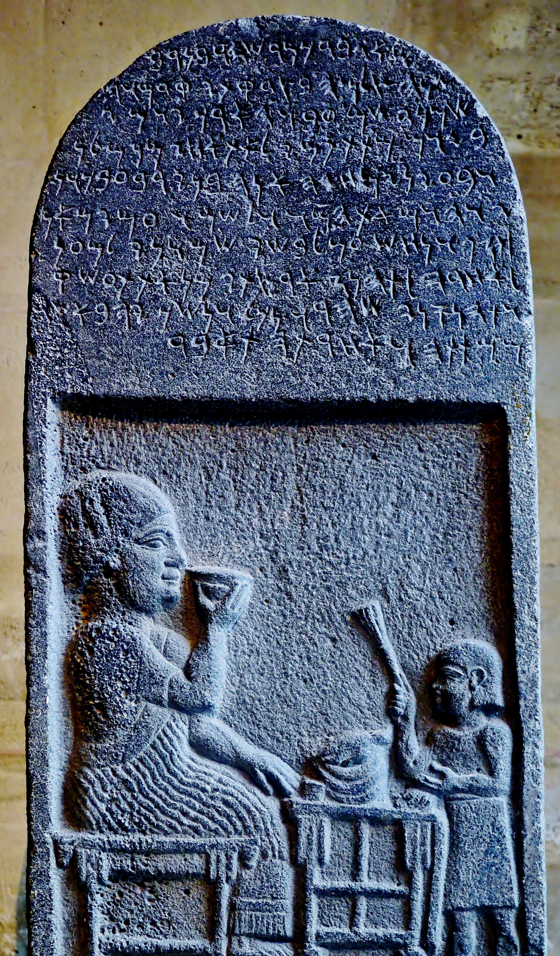 Funeral stele of Si` Gabbor, priest of the Moon God. Basalt, early 7th century BC, found in Neirab (Syria), bears an Aramaic inscription.